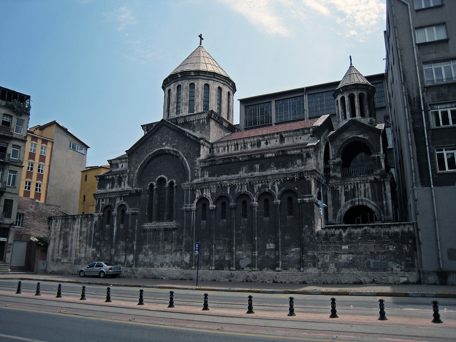 Armenian church (Surp Krikor Lusavoritch) in Istanbul